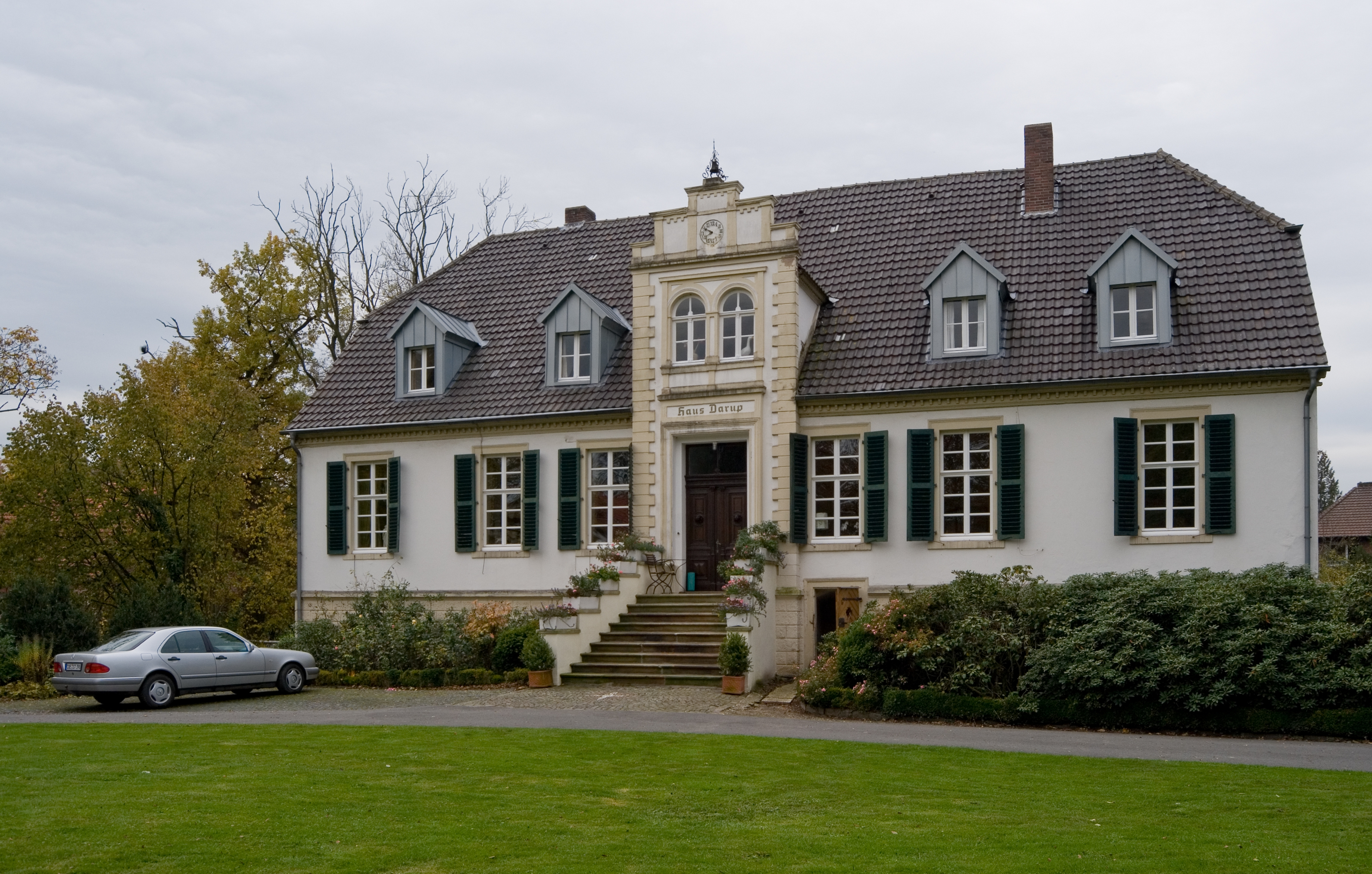 Nottuln (North Rhine-Westphalia, Germany) – district Darup – manor house Haus Darup This photograph was taken with a Nikon D3000